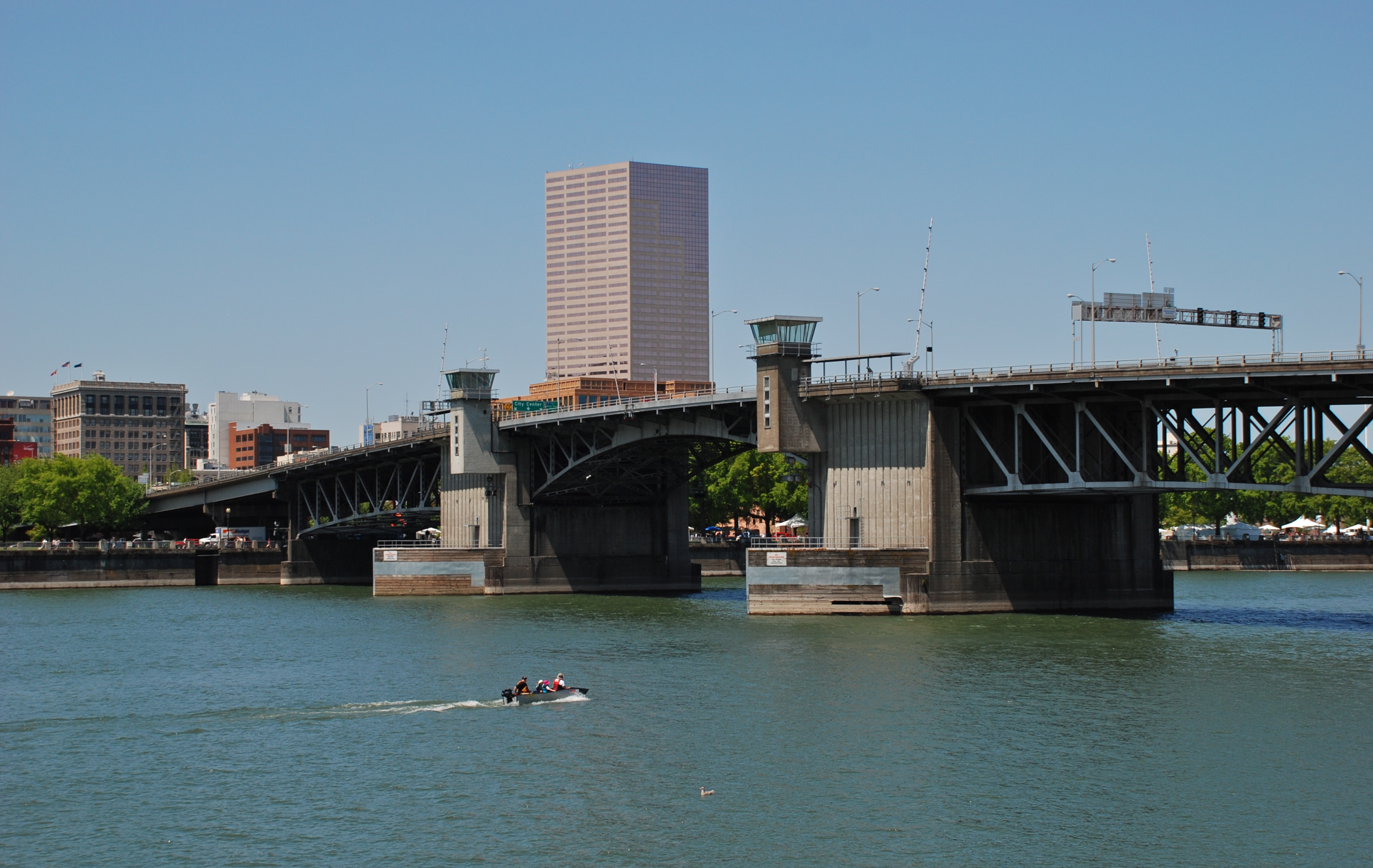 The south side of the Morrison Bridge, a 1958 bascule bridge across the Willamette River, in Portland, Oregon. This view is from from the Eastbank Esplanade, looking northwest. In the background is the US Bancorp Tower.